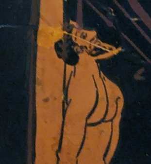 Odysseus tied on the mast. Icon for the Greek mythology portal.